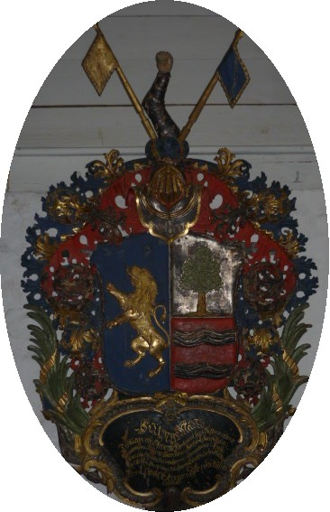 Photo Löwenhults vapen Tenala Kyrka 2013-08-16 Finland